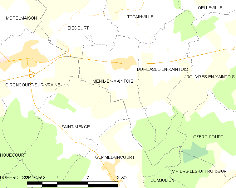 Map of French municipality Ménil-en-Xaintois